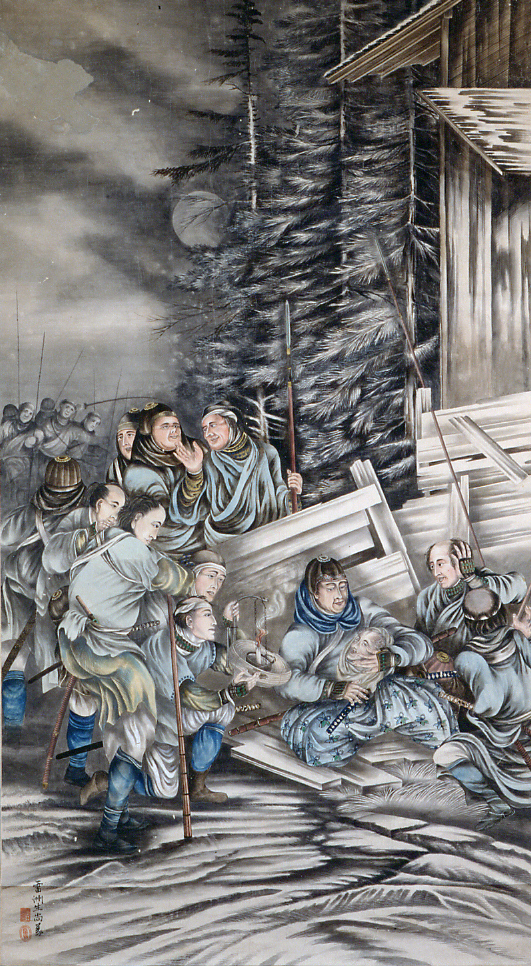 Revenge of the Loyal Samurai of Akō, by Yasuda Raishū, Homma Museum of Art, Sakata, Yamagata, Japan (iconography based on the Adoration of the Shepherds per [1])